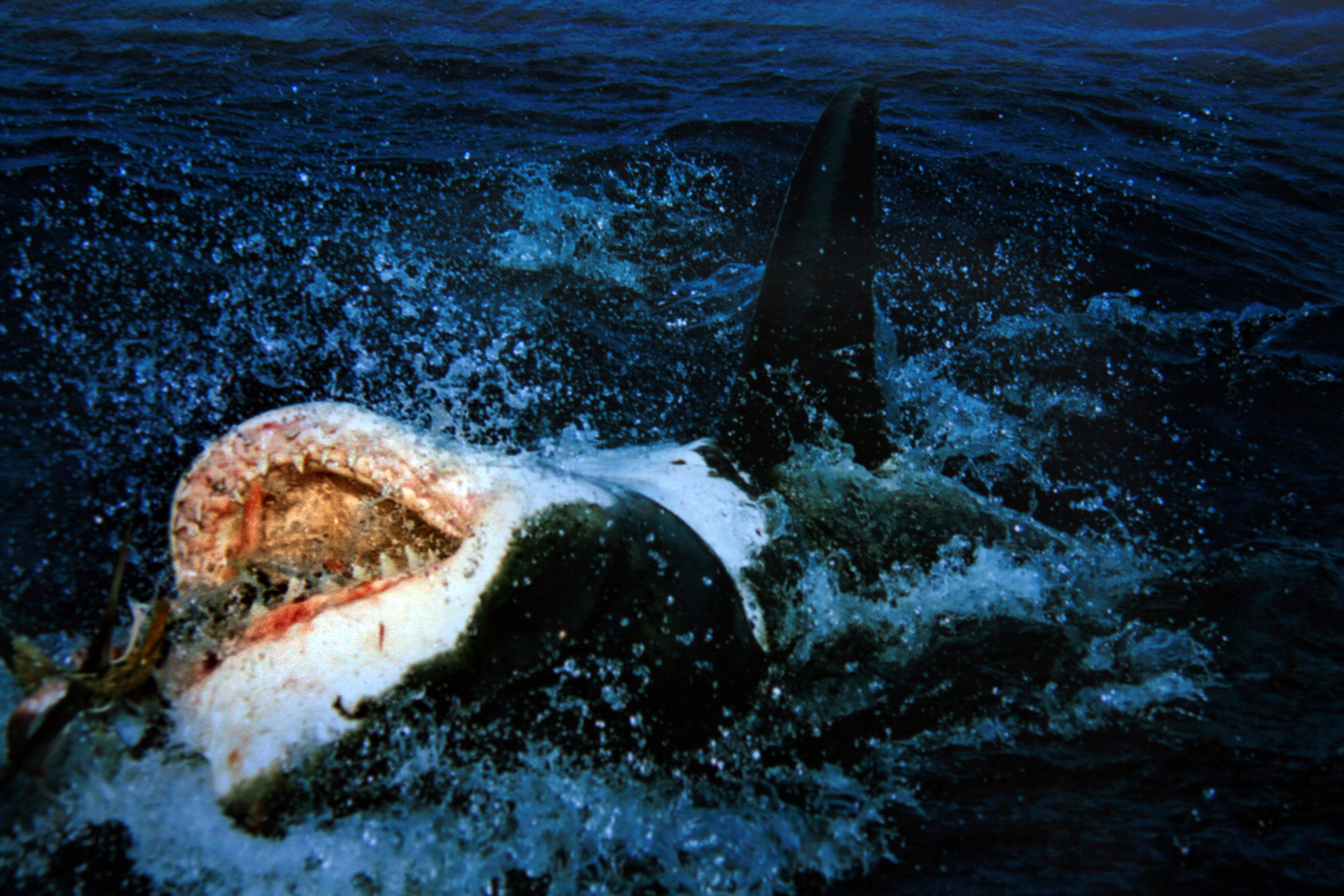 A great white shark at Isla Guadalupe, Mexico is catching a bait of a tuna while swimming at his back. This picture shows a really rare behavior. I've seen it only once. Please note, we did not try to catch a shark. We did try to bring sharks closer to the cages. No shark was hurt. The picture is a digital copy of my old film picture.